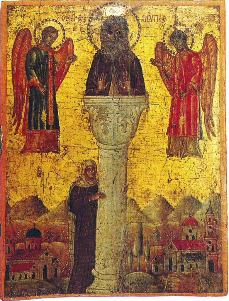 Alypius the Stylite